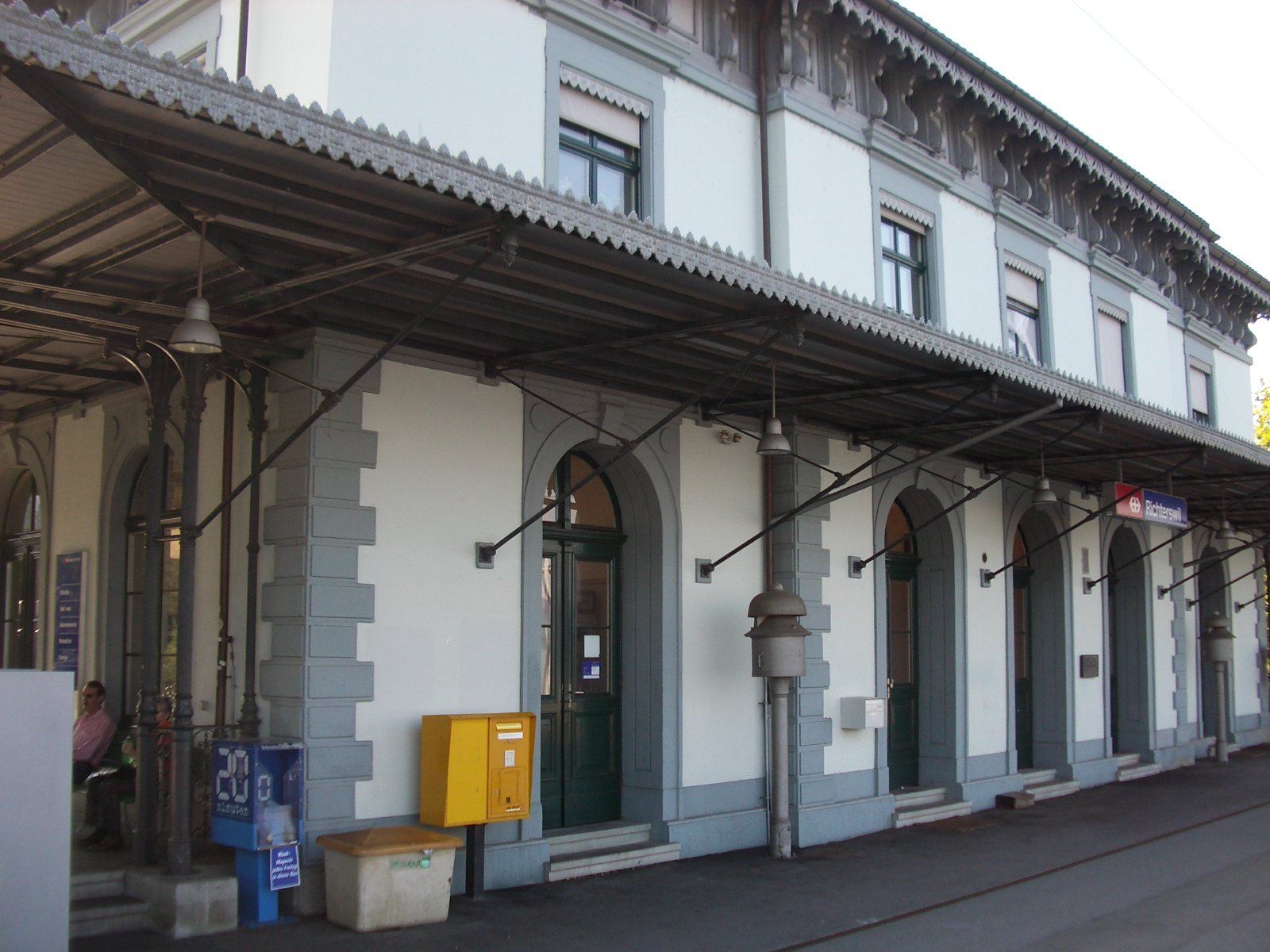 Railway Station Richterswil, Switzerland self-made, September 2005